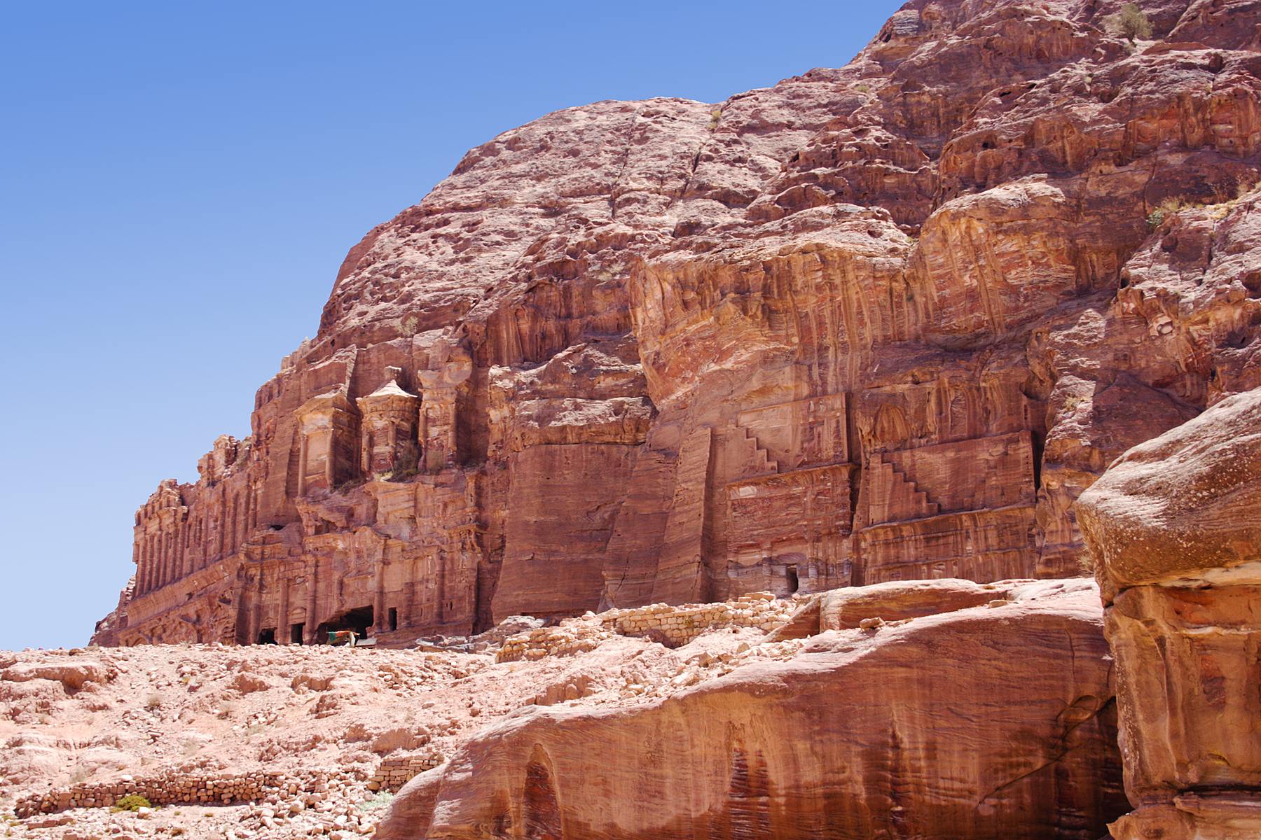 The Tombs of Kings in Petra.